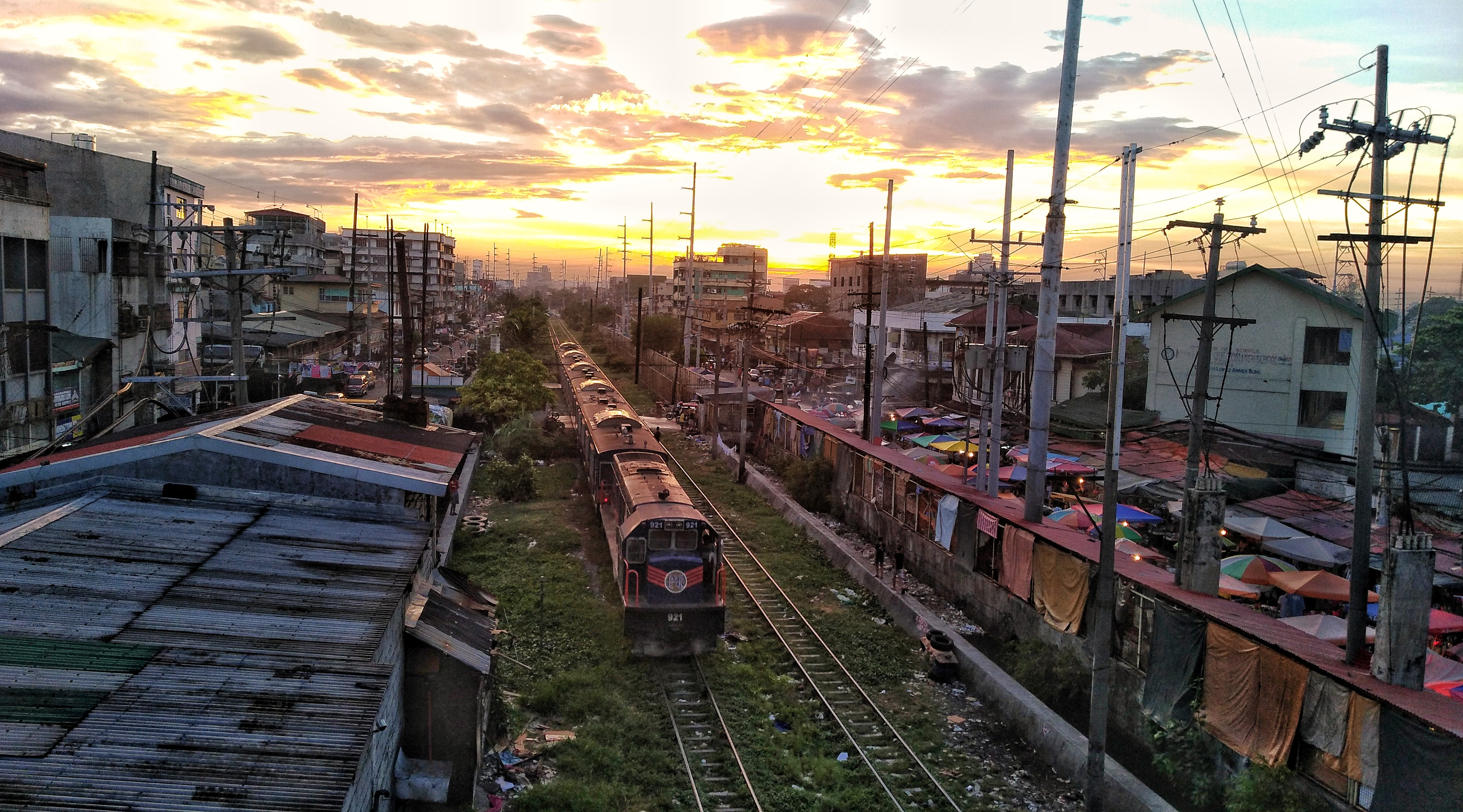 A summer vibe on hot day.